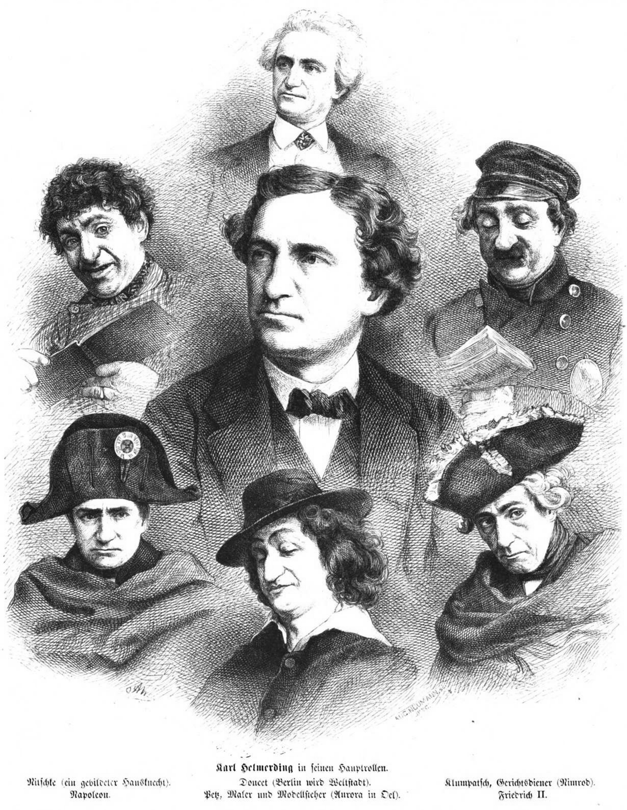 caption: "Karl Helmerding in seinen Hauptrollen.Nitschke (ein gebildeter Hausknecht). Doucet (Berlin wird Weltstadt). Klumpatsch, Gerichtsdiener (Nimrod).Napoleon. Petz, Maler und Modellsteher (Aurora in Oel) Friedrich II."